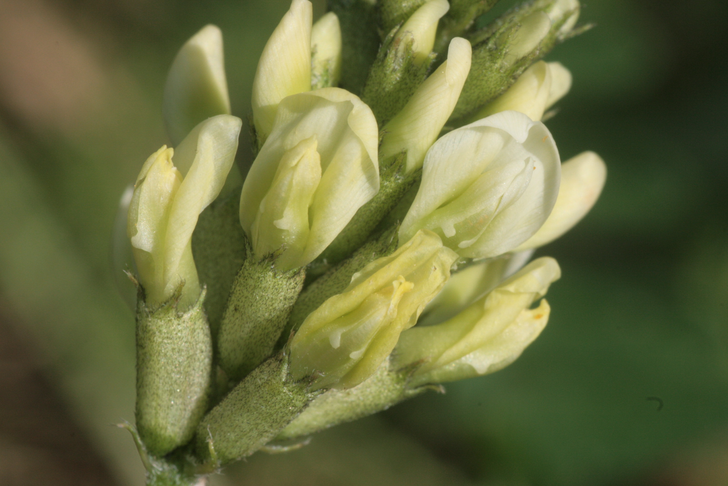 Astragalus cicer